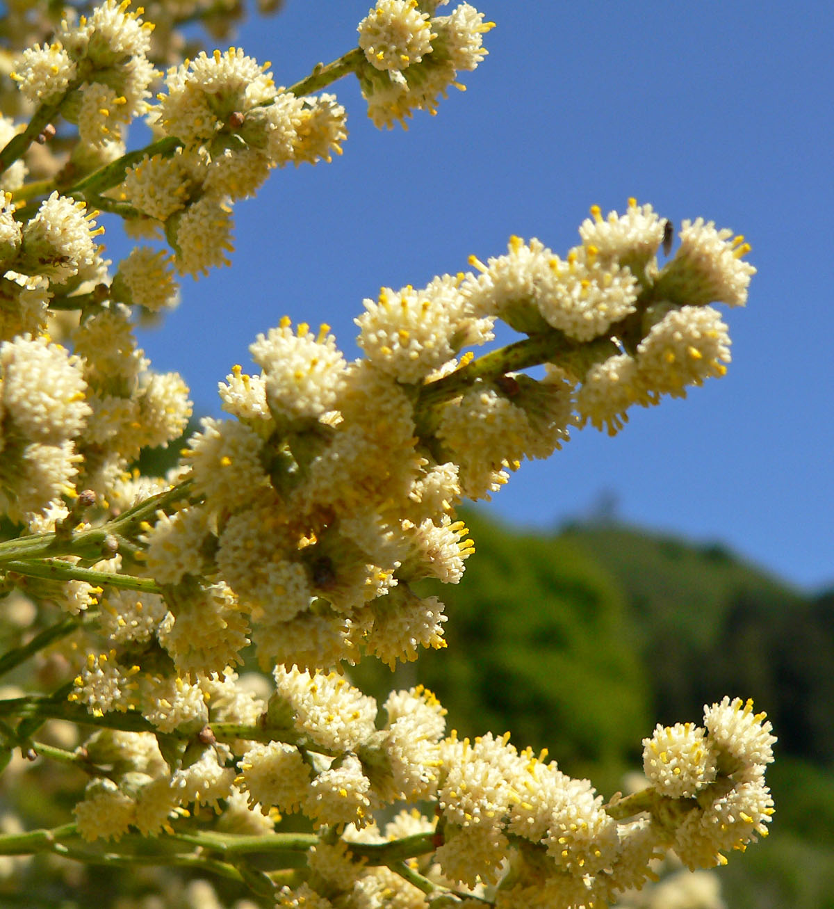 Baccharis articulata at the University of California Botanical Garden, Berkeley, California